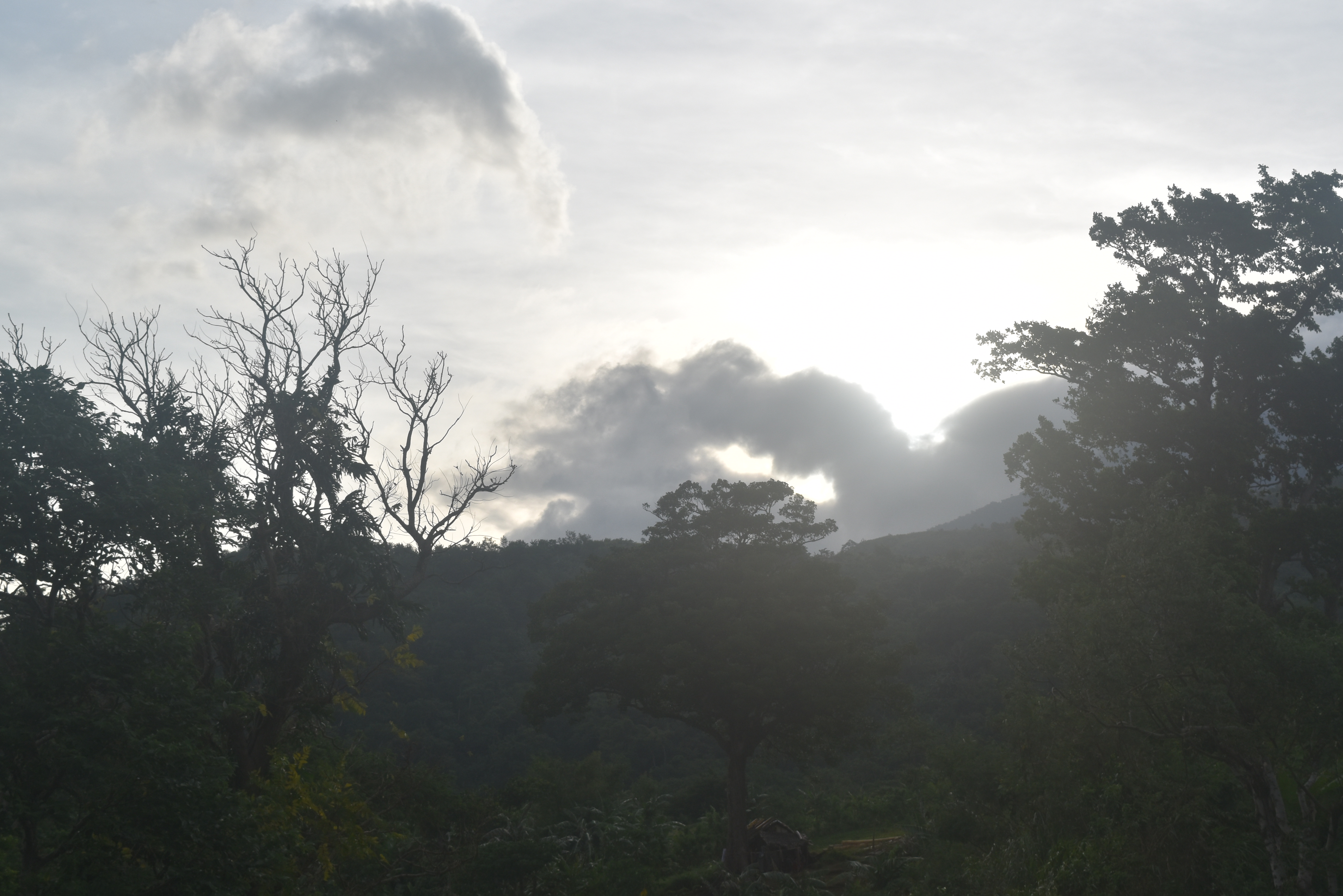 At the Mt. Isarog National Park, Camarines Sur